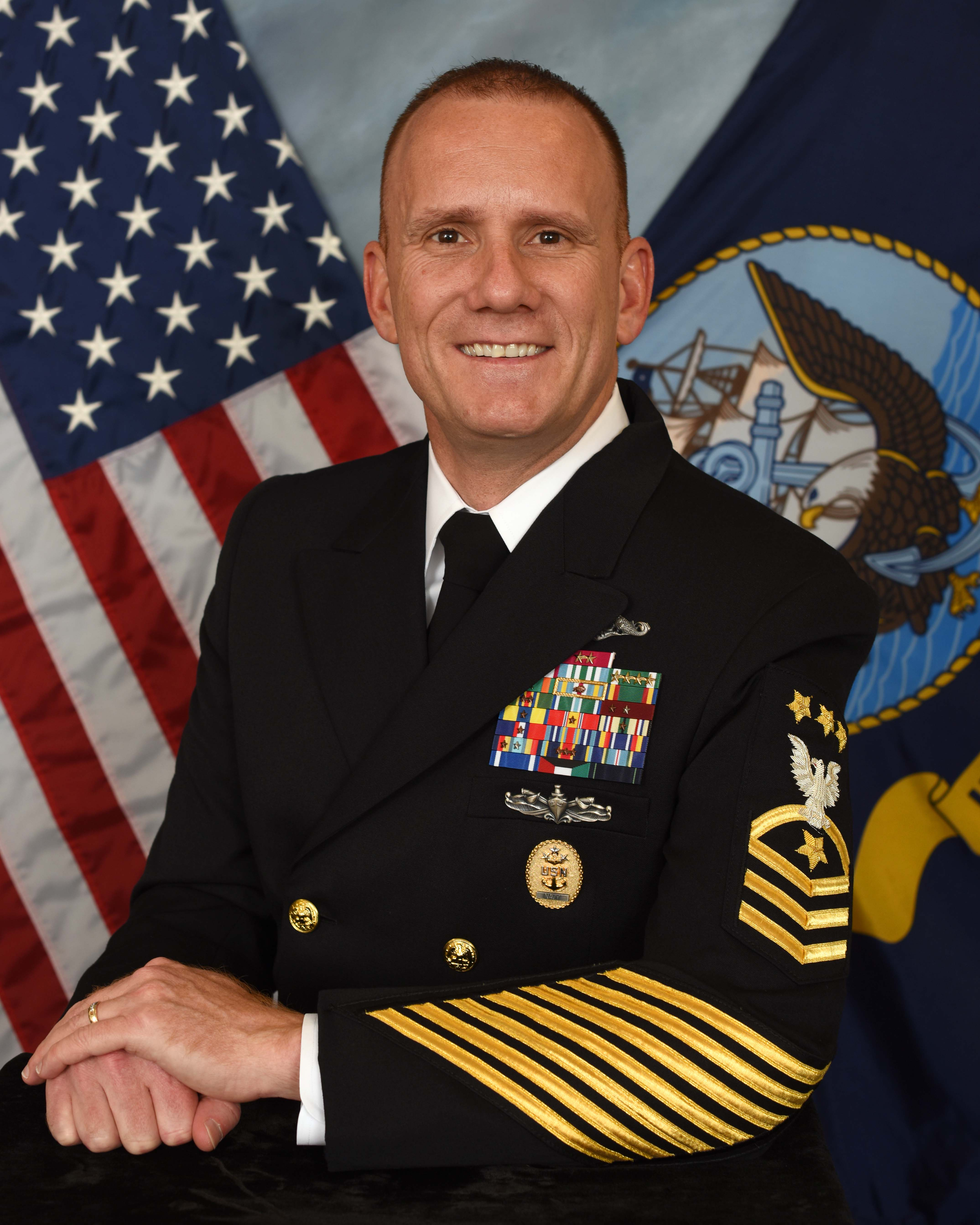 Newest official portrait of Steven S. Giordano